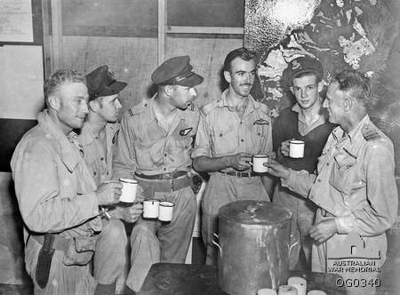 A No. 6 Squadron RAAF Beaufort bomber crew receiving cups of coffee from the squadron's padre (at right) after they returned from a raid on Rabaul during which both of the aircraft's engines failed. The man to the left of the padre was on board a different aircraft.